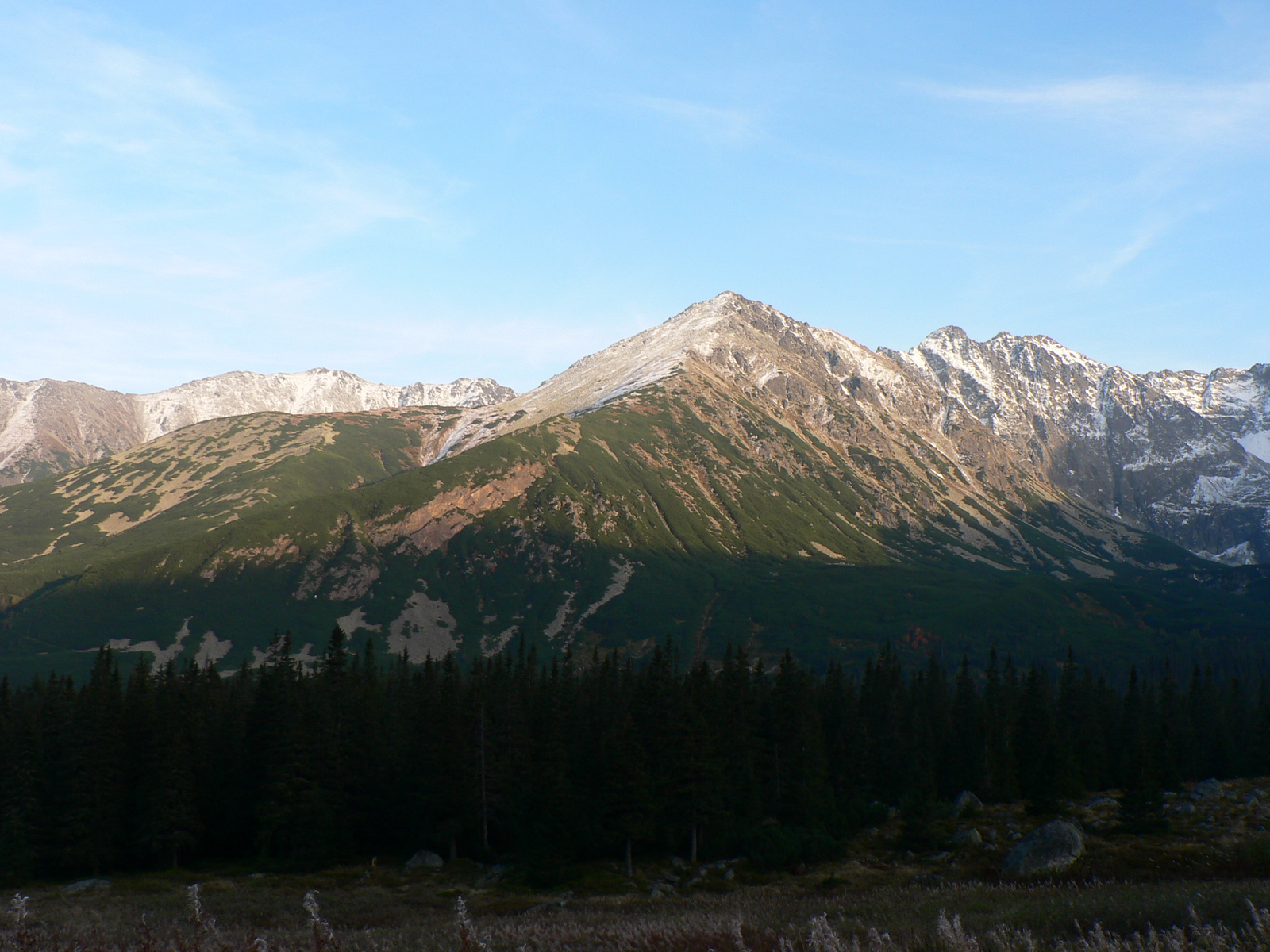 Żółta Turnia